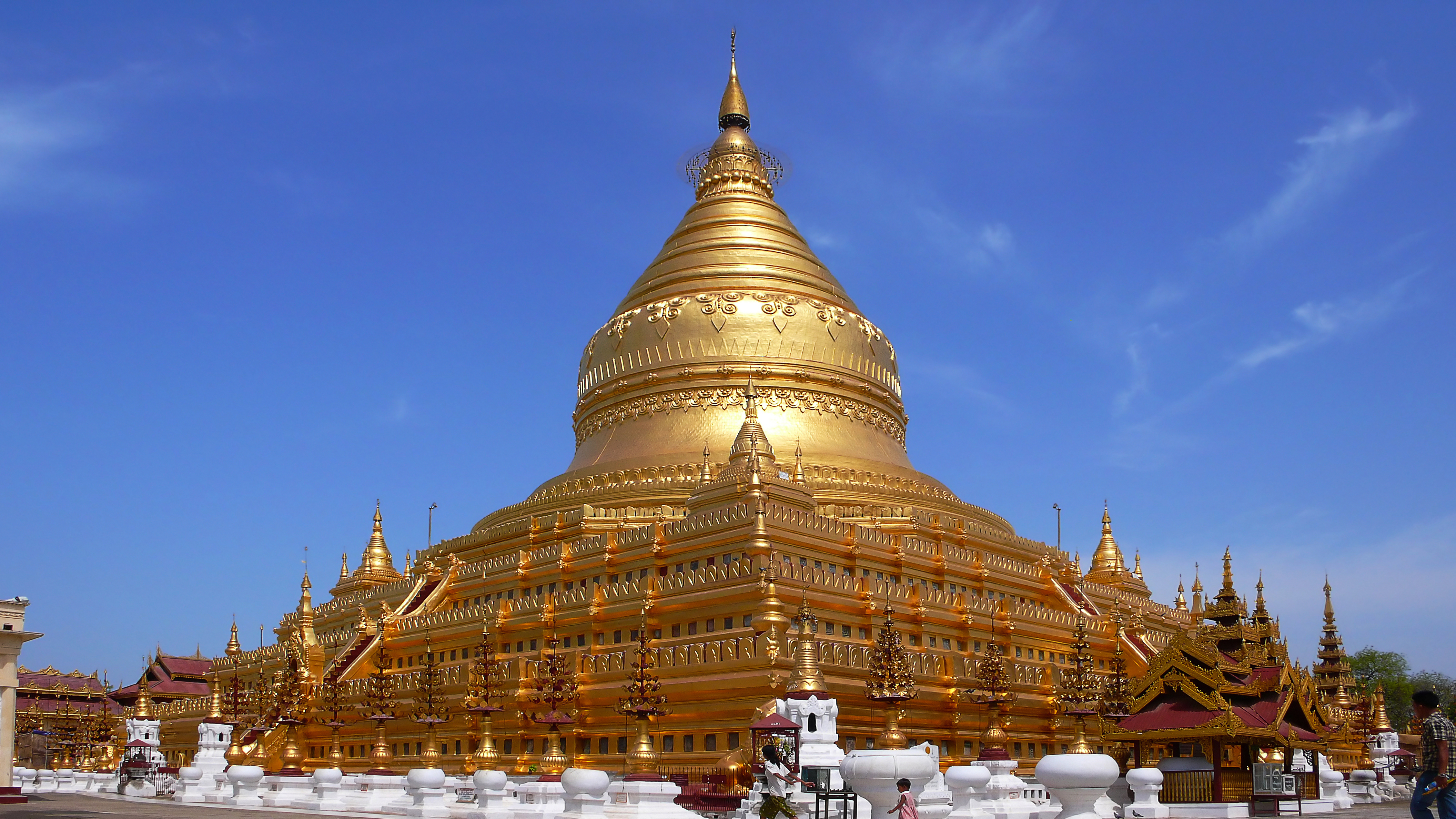 Shwezigon, Bagan, Myanmar Швезигон, Баган, Мьянма